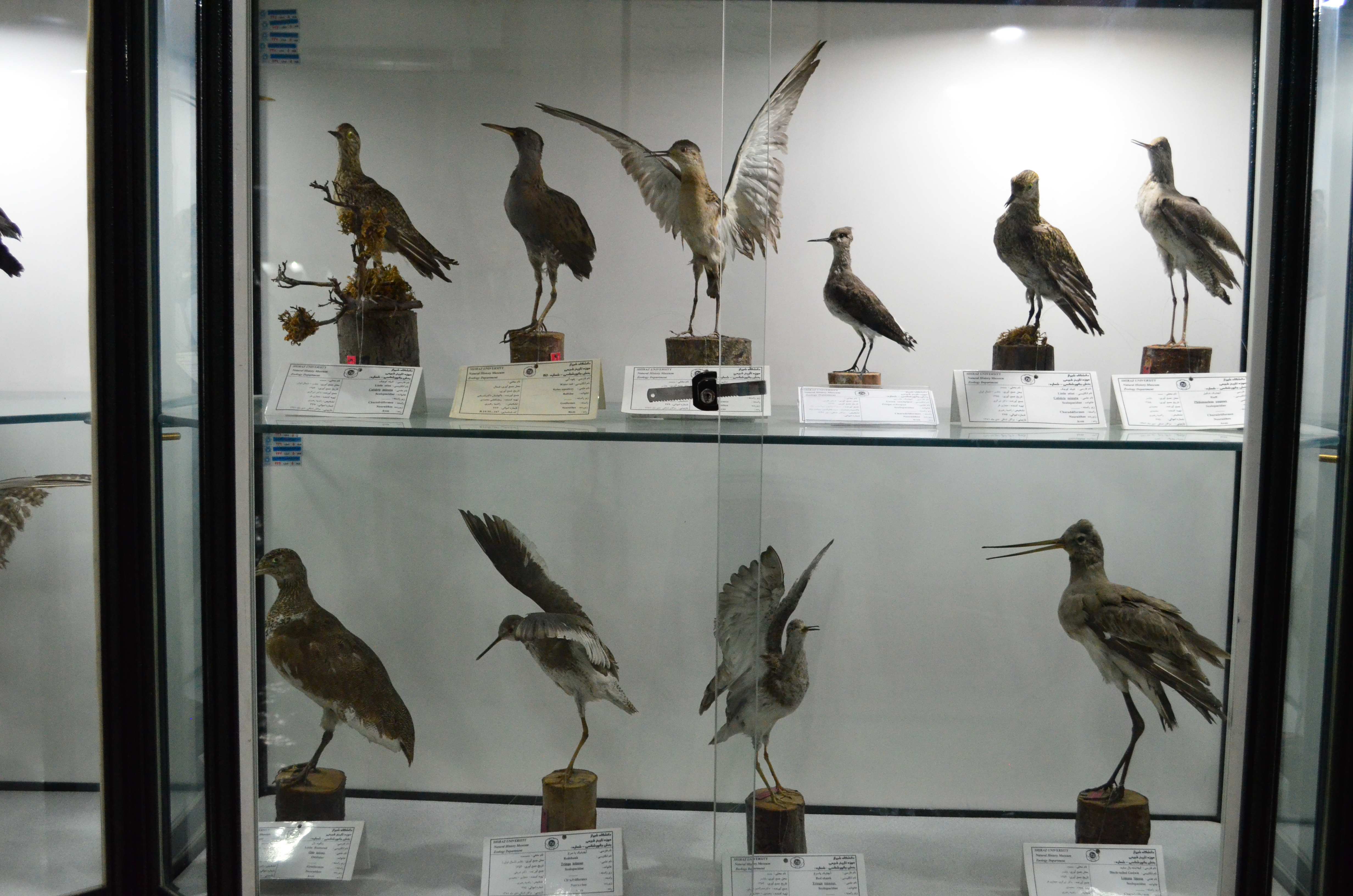 Natural History and Technology Museum of Shiraz University